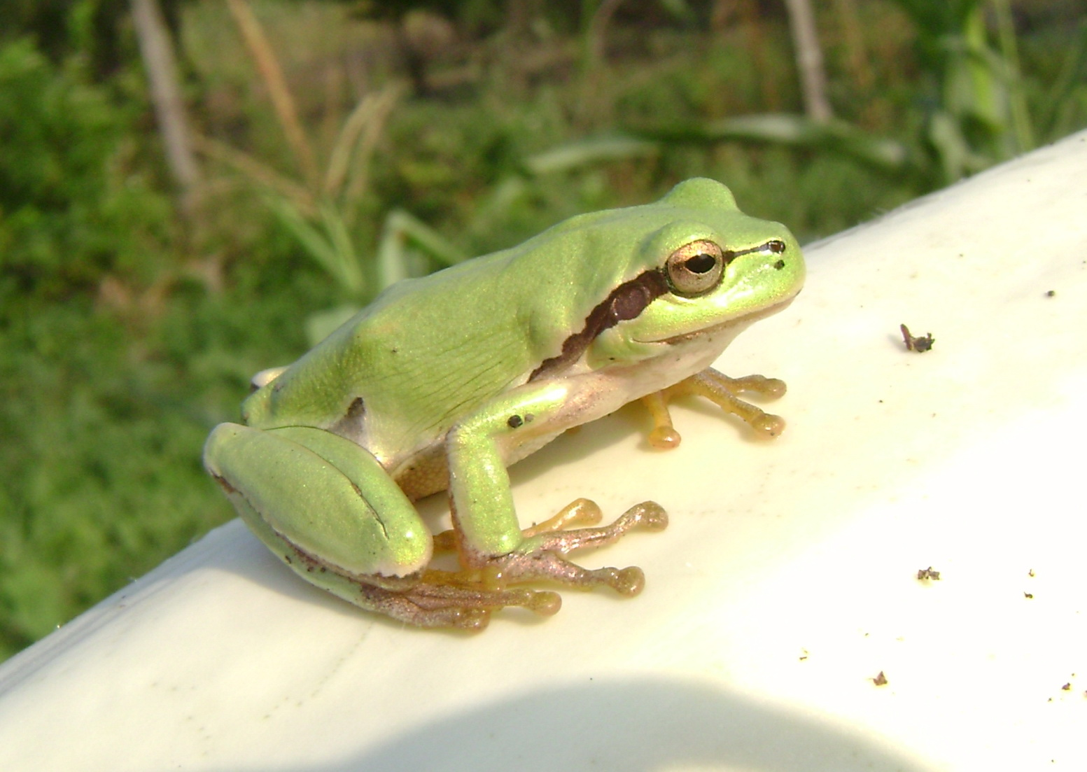 A tree frog in Romania